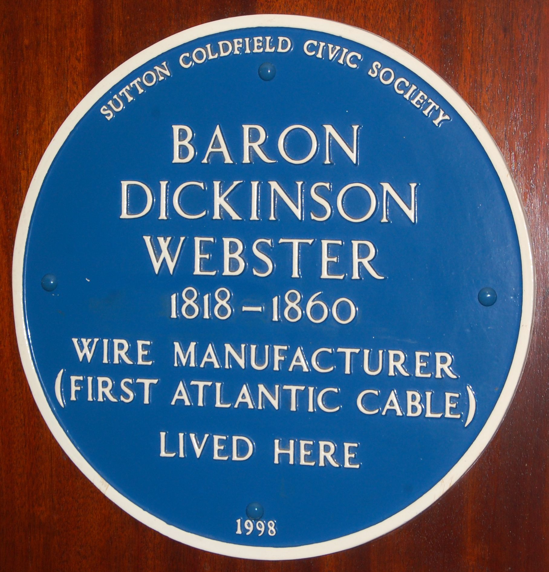 Blue plaque honouring Baron Dickinson Webster at Penns Hall, Walmley, Sutton Coldfield, Birmingham, England.